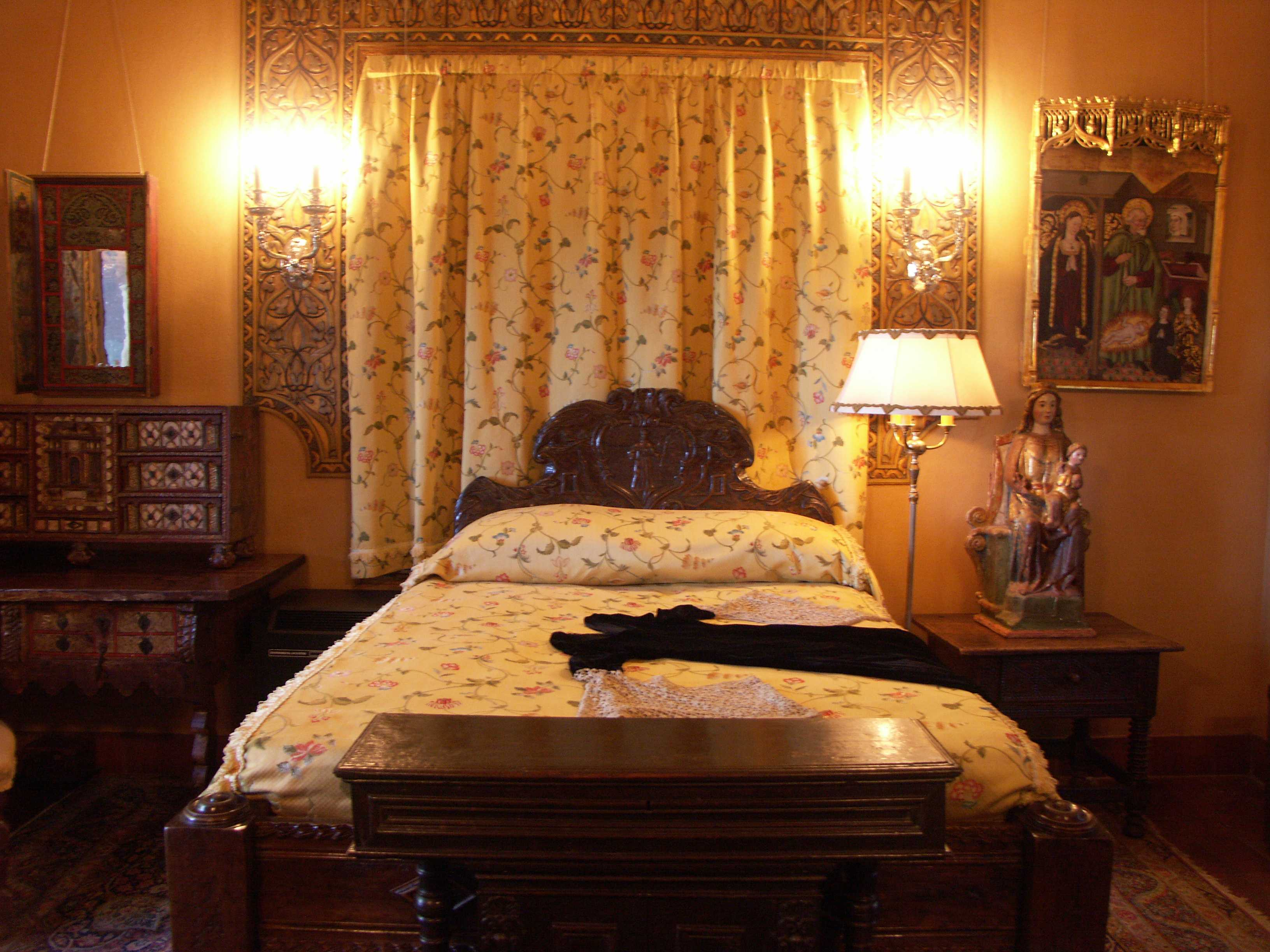 Hearst Castle - Casa des Sol (guest house) - One of the 4 bedrooms